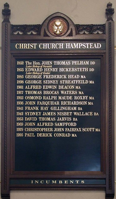 Christ Church, Hampstead Square, London NW3 - Vicars board, CTYPE html PUBLIC "-//W3C//DTD XHTML 1.0 Strict//EN" " Christ Church, Hampstead Square, London NW3 - Vicars board:: OS grid TQ2686 :: Geograph Britain and Ireland - photograph every grid square! Geograph - photograph every grid square TQ2686 : Christ Church, Hampstead Square, London NW3 - Vicars board near to Hampstead, Camden, Great Britain.